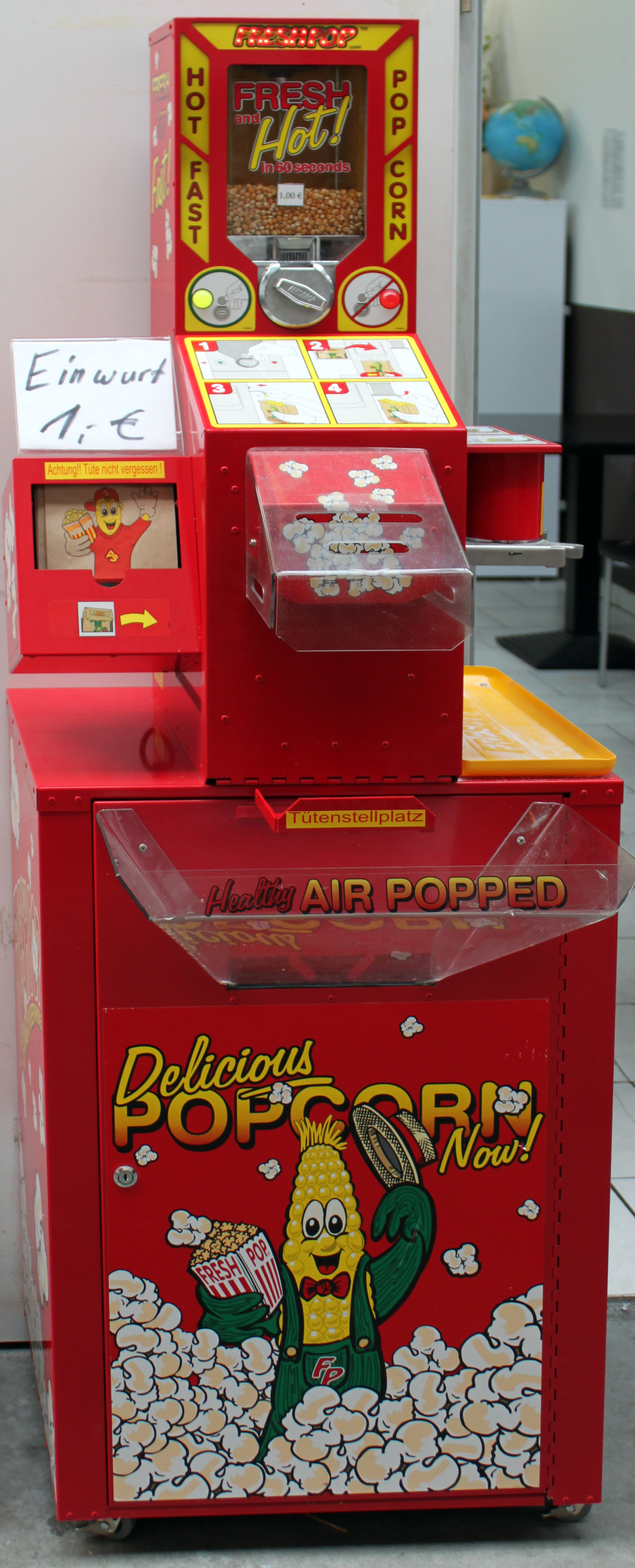 Popcorn vending machine in the Dong Xuan Center, Berlin, Germany